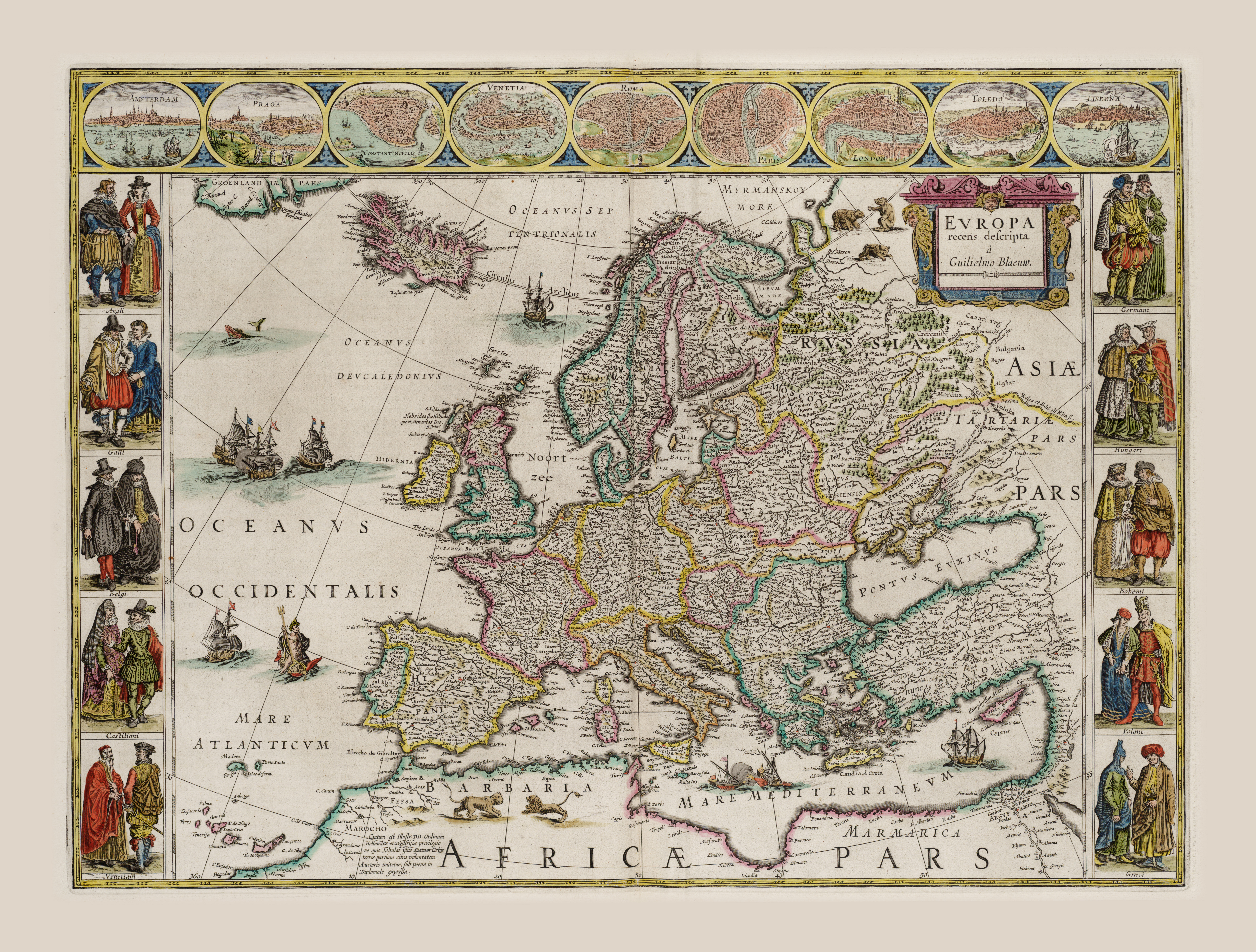 Europa recens Descripta Height: 41 cm (16.1 in); Width: 55 cm (21.6 in) dimensions QS:P2048,41U174728;P2049,55U174728